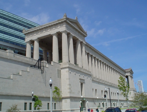 Presented here is a photo of Soldier Field, Chicago, Illinois, and the home of the Chicago Bears... Here you can see the original stadium wall, along with part of the new stadium built within the original shell. I took this is August of 2004. JesseG 14:01, 20 Aug 2004 (UTC) Category:Images of Chicago, Illinois